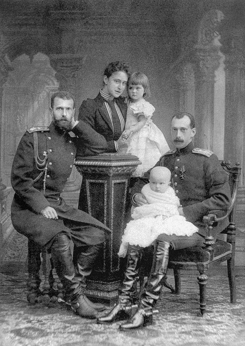 Grand Duke Sergei Alexandrovich, his wife, Grand Duke Paul Alexandrovich and his son Dimitri and Marie